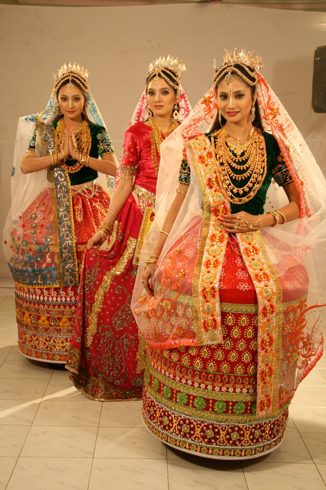 Meitei Hindu Traditional wedding attire for Bride